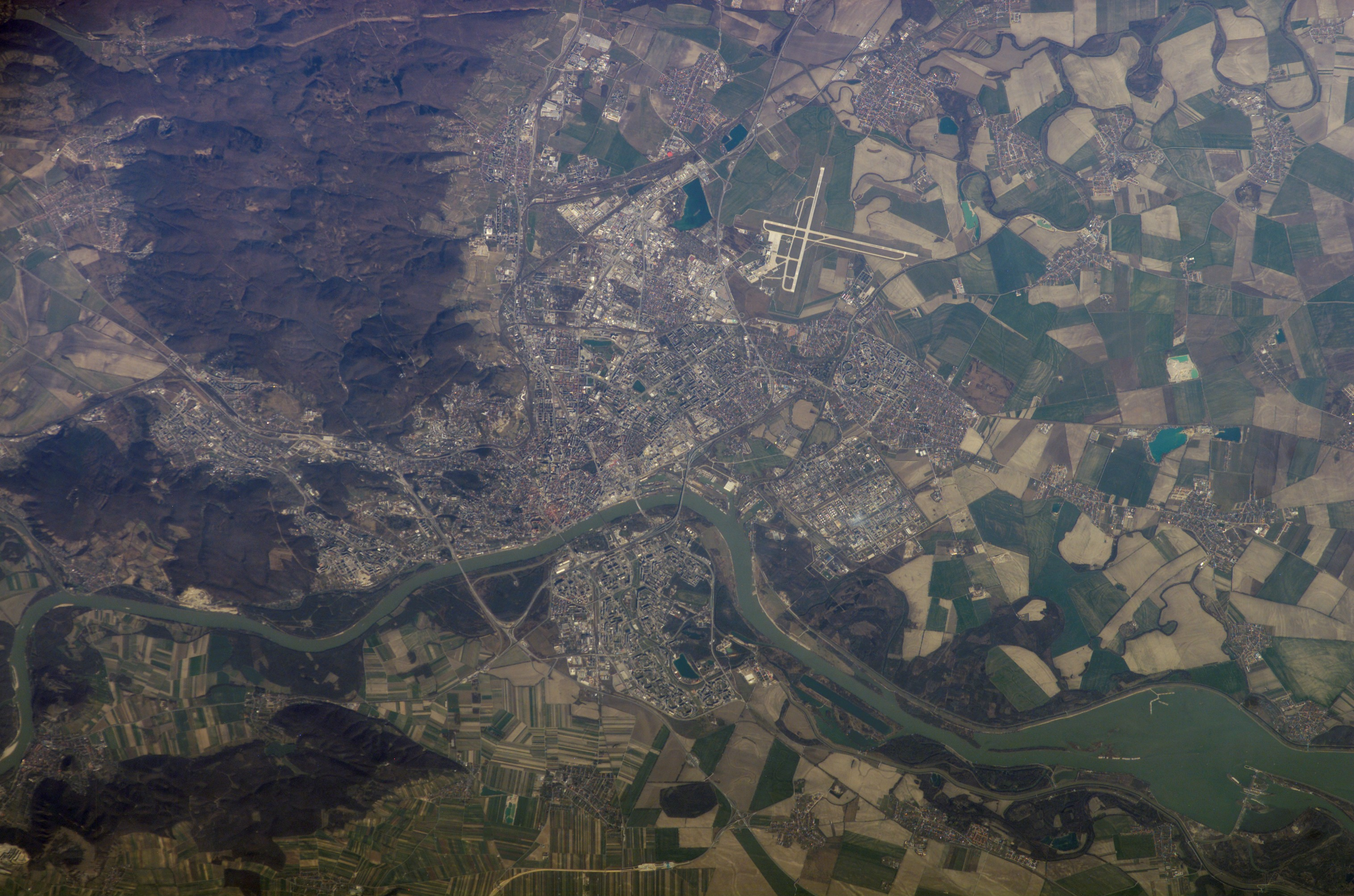 Astronaut Photo of Bratislava, Slovakia taken from the International Space Station (ISS) during Expedition 14 on March 13, 2007.